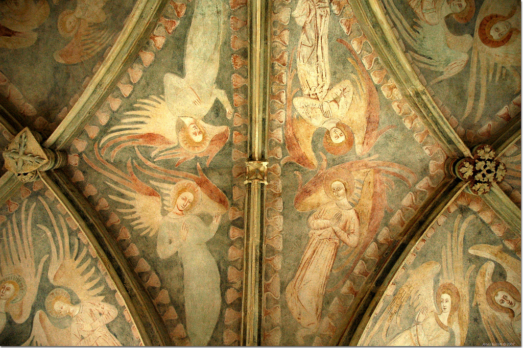 Medieval painting in Sazava Monastery, Czech Republic